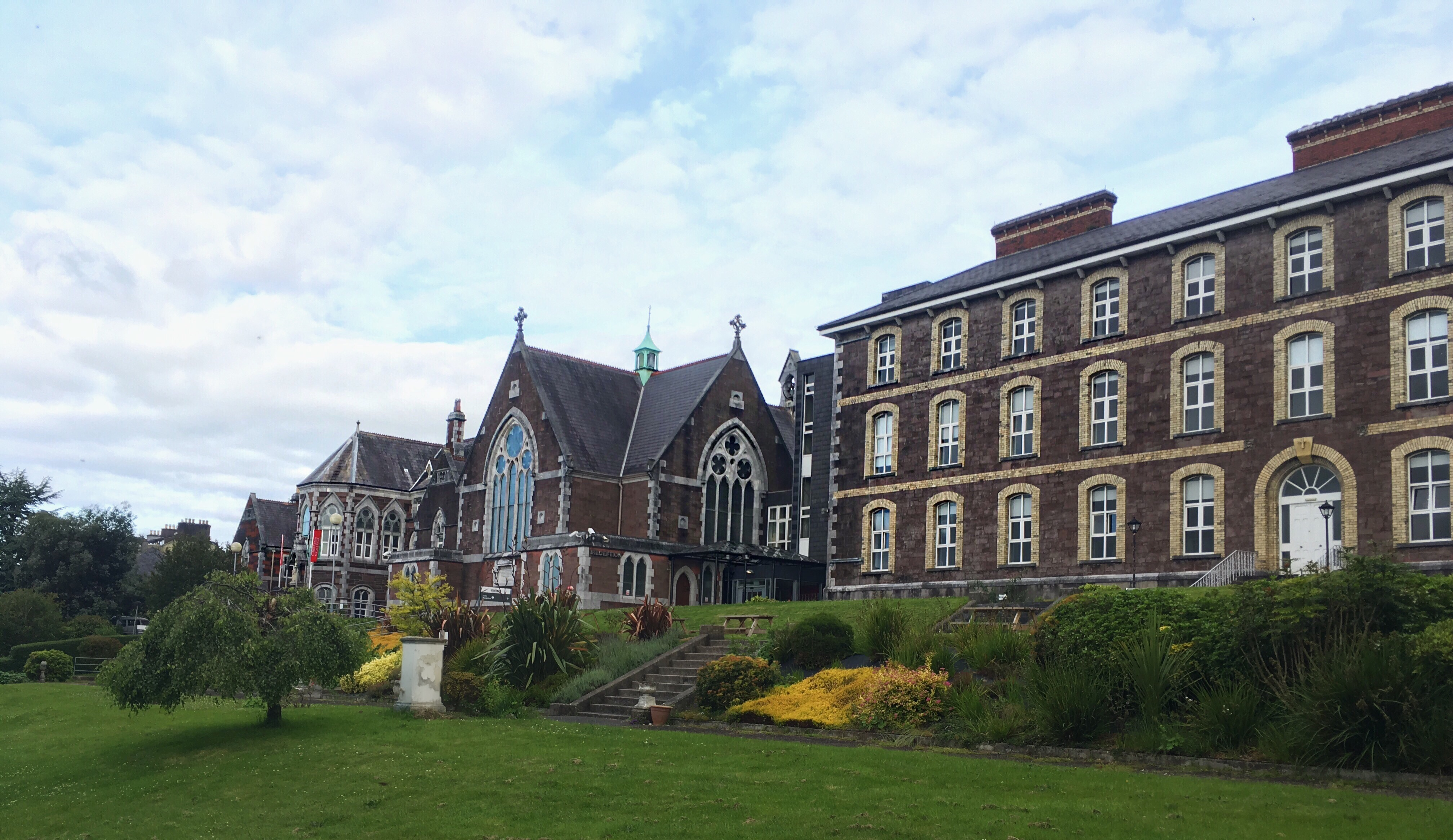 This File is an image of Griffith College Cork on their Wellington Road Campus.